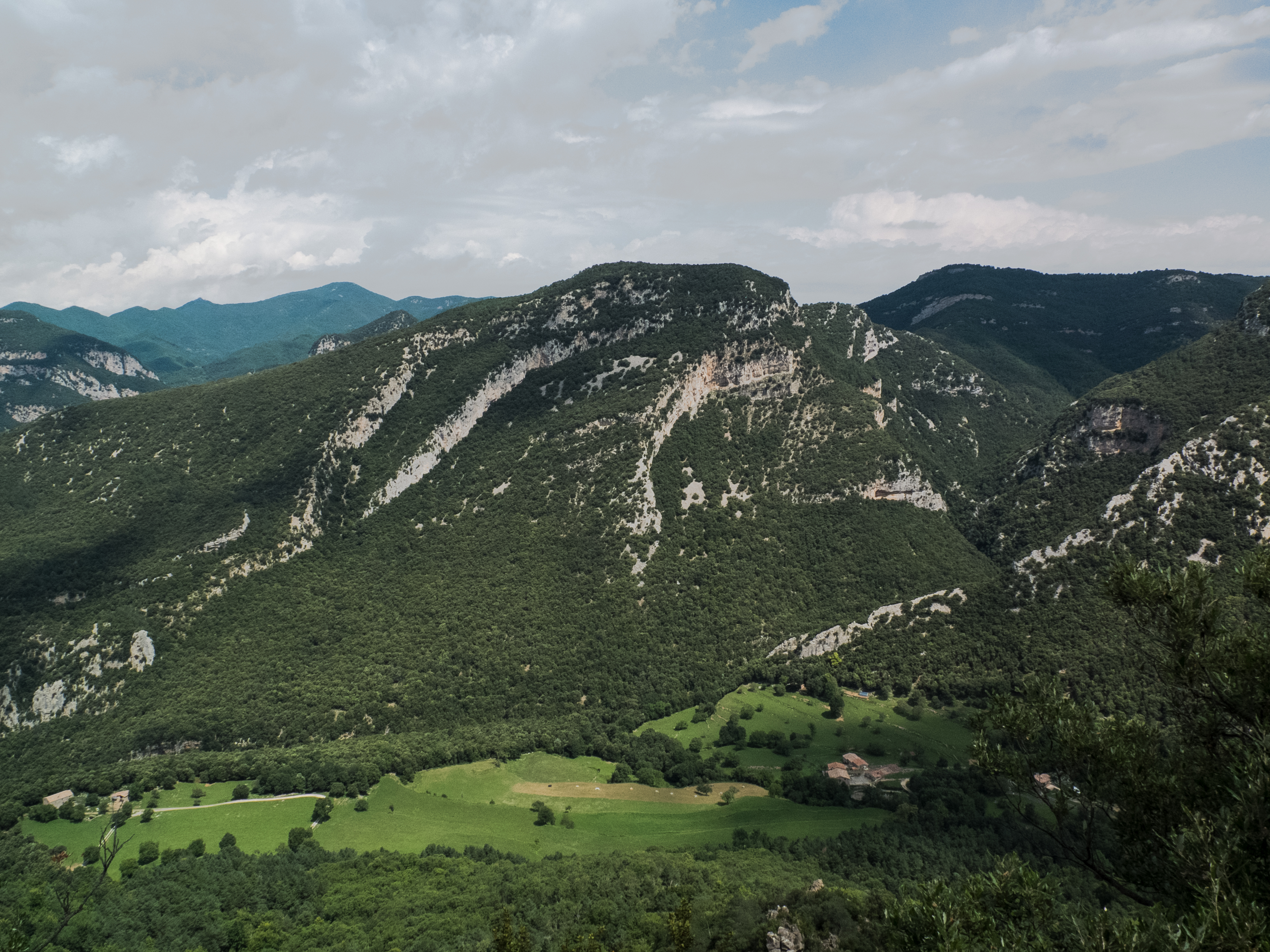 Puig Martanyà (Alta Garrotxa)a view from Serrat Vermell (Cingles de Guitarriu)